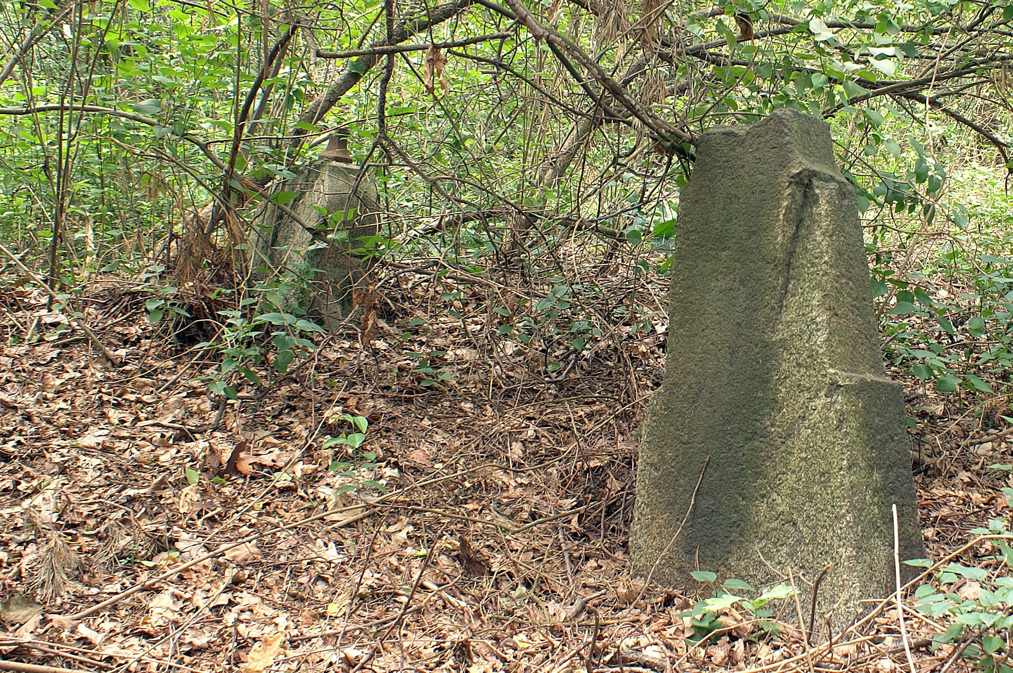 Ruins of cemetery